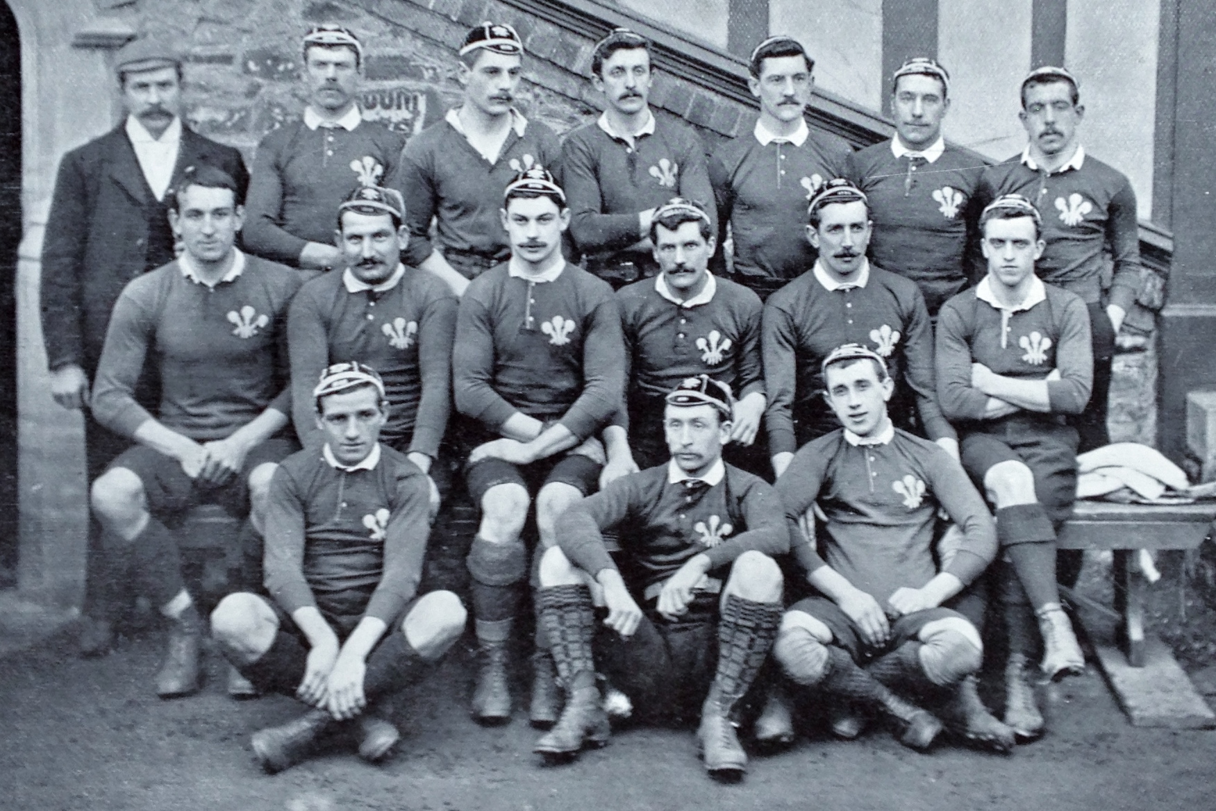 Team photograph of the Wales national rugby union team before their 1895 Home Nations Championship encounter with England